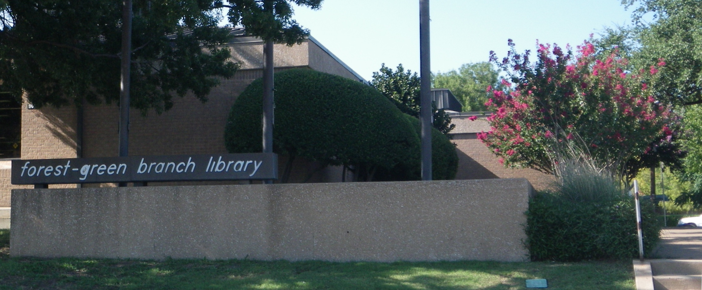 Forest Green Library 9015 Forest Ln Dallas, TX 75243-4114